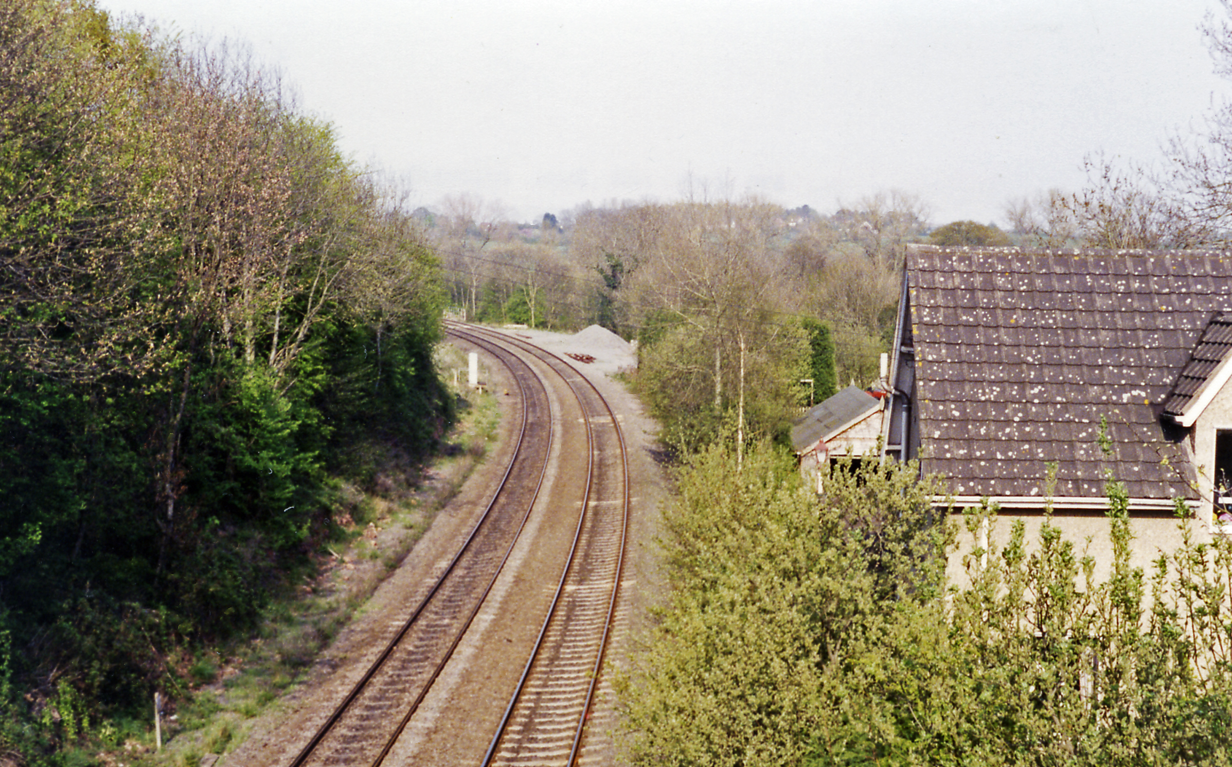 Site of Arley & Fillongley station. View westward, towards Water Orton and Birmingham: ex-Midland Birmingham (New Street) - Leicester secondary main line. The station was closed 7/11/60, but the line remains active.